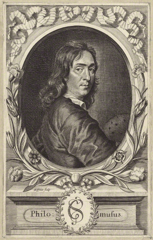 Portrait of Samuel Gilbert (died 1692?), English clergyman and garden writer.